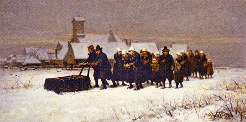 painting of a Dutch funeral in The Netherlands, on the isle of Marken